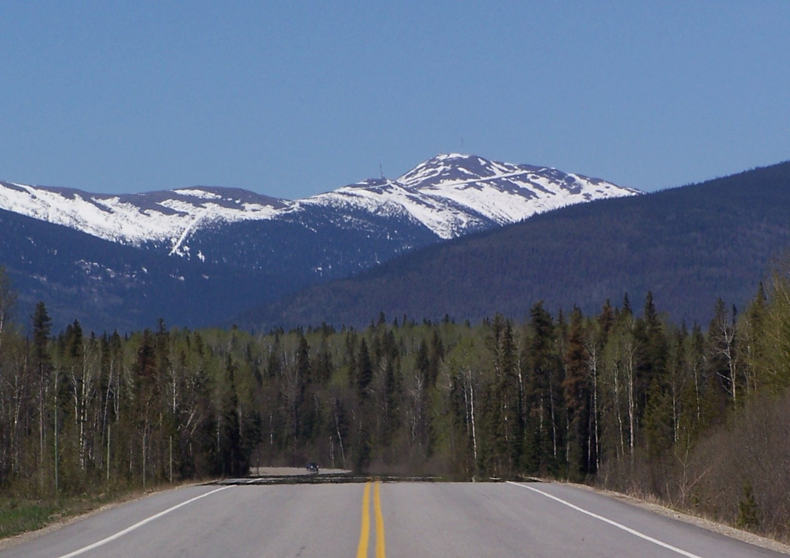 Morfee Mountain tall on the Horizon on Highway 39 Approach